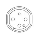 Electric vehicle conductive charging plug. Presa tipo 3a, Single phase 16A, 250Vac